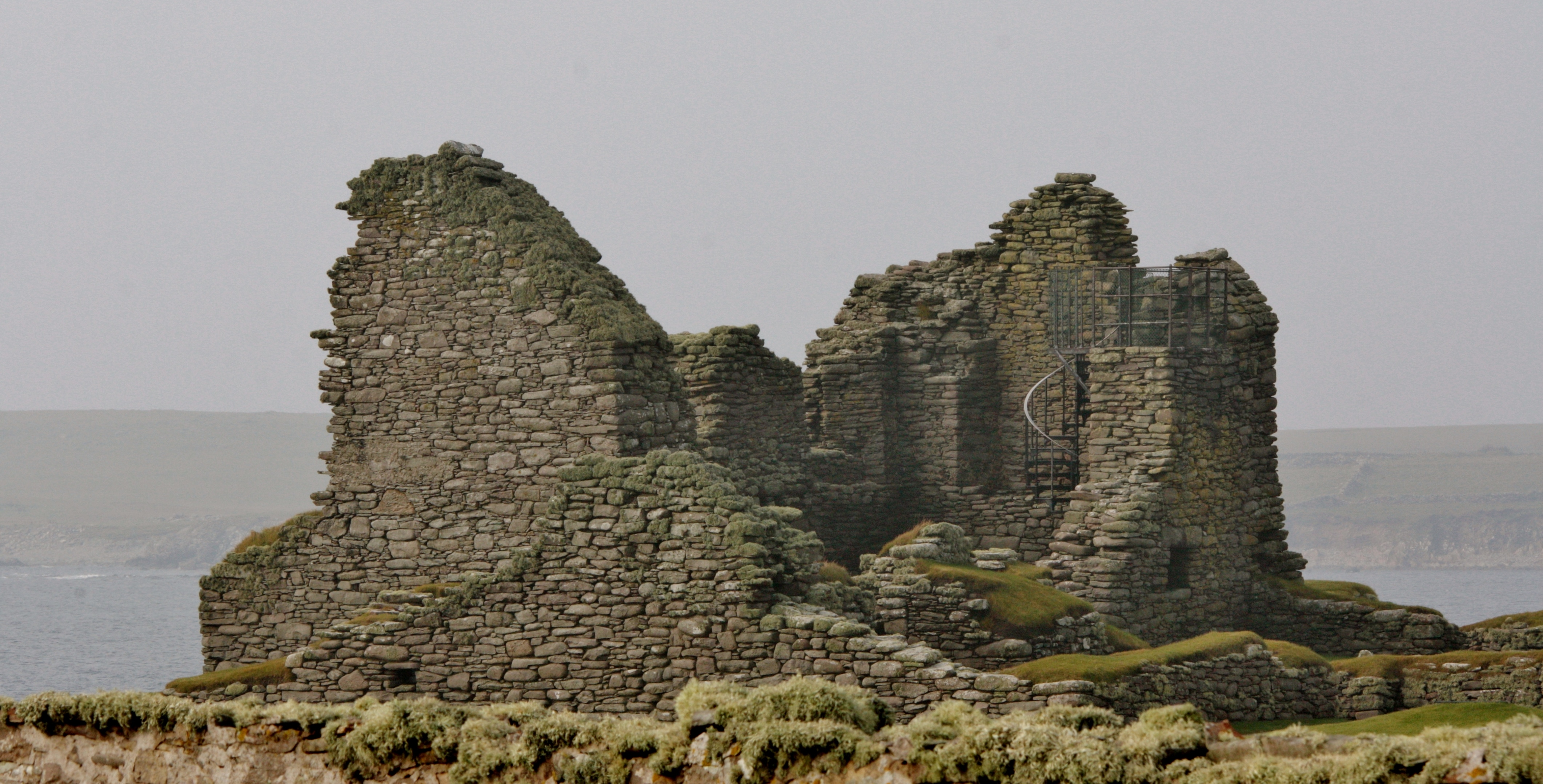 Ruins of the Laird's house at Jarlshof .